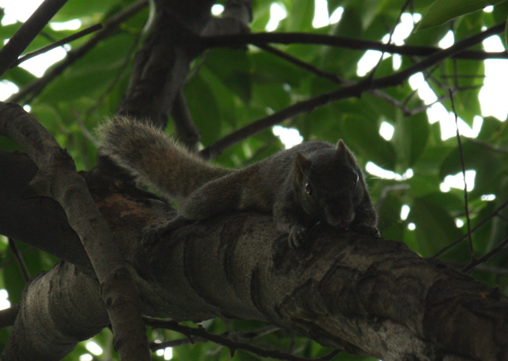 Callosciurus erythraeusi in Hangzhou, China